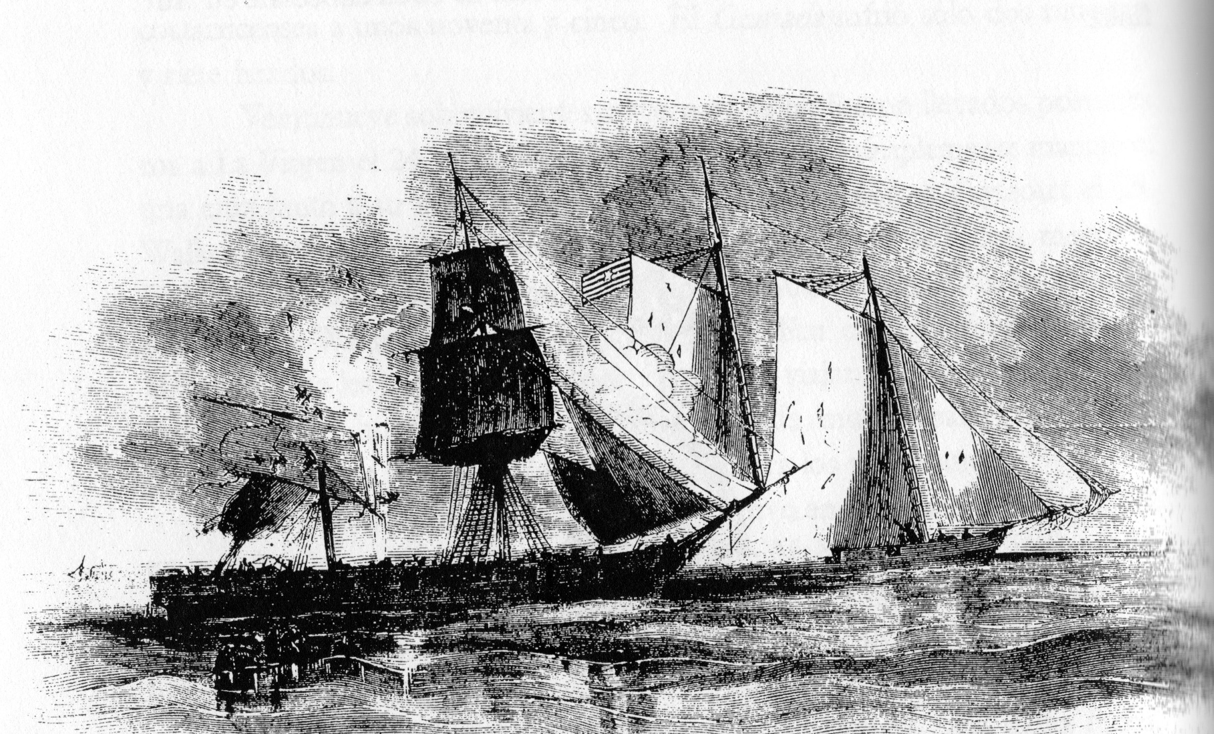 Naval action at San Juan del Sur, Nicaragua, 23 novembre 1856. Contemporary scetch. In front the costarican ONCE DE ABRIL, in the background the nicaraguan filibuster ship of William Walker, the schooner GRANADA.